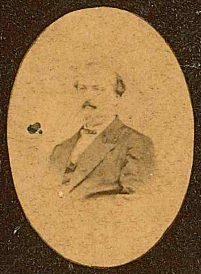 Ludvig Ljungman (1836-1881), Swedish cantor, singer, amateur actor and central figure in the cultural life at Lund University during the 1860s and 1870s. Detail from a photo collage picturing members of the "Musikalisk-dramatiska sällskapet" (= musical-dramatical society) in Lund.